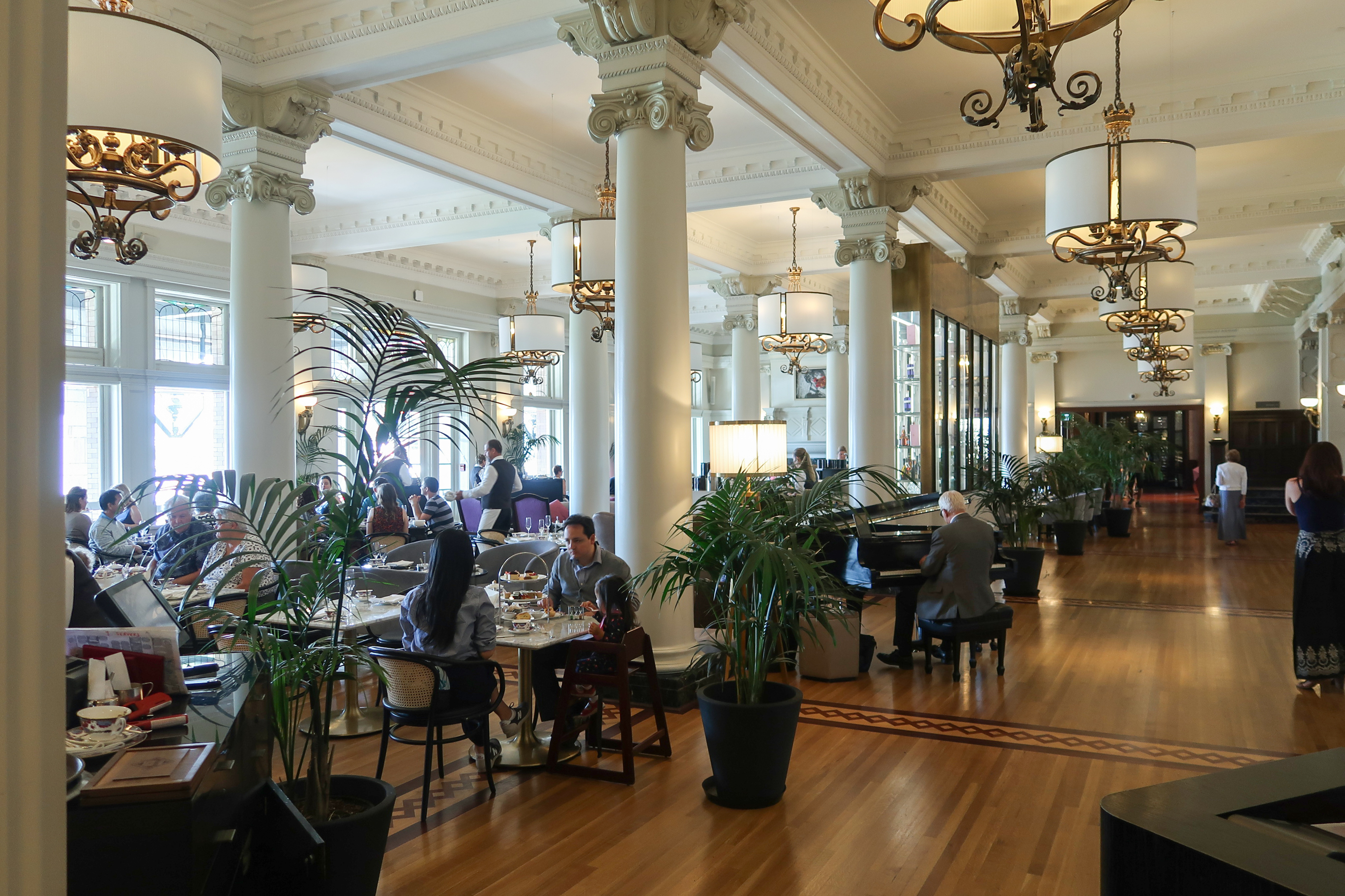 Fairmont Empress Lobby Lounge